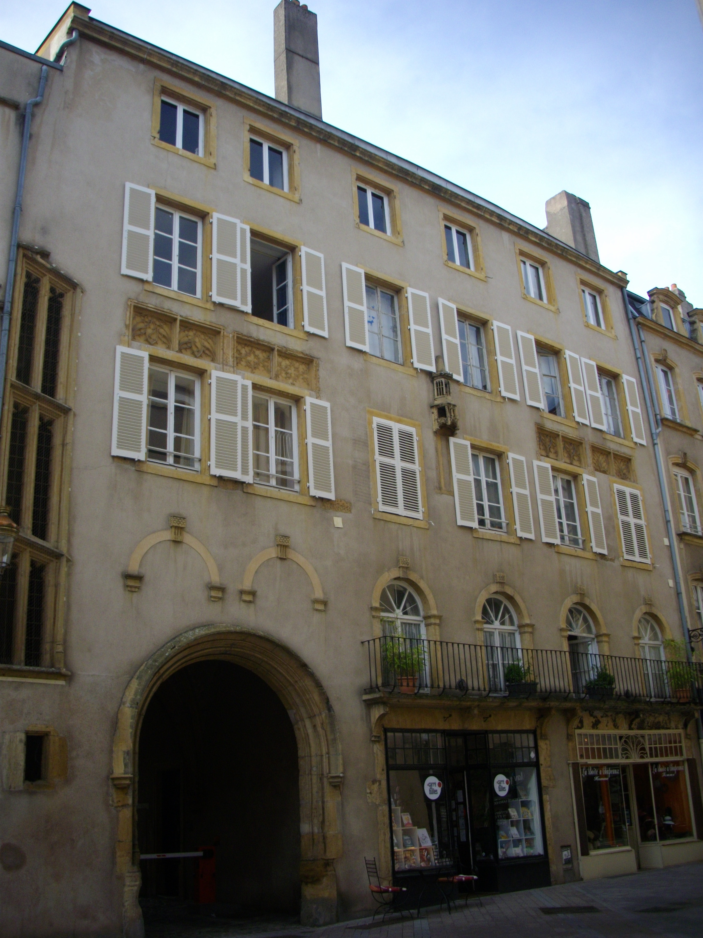 "Hôtel de Heu" in Metz (Moselle, France)